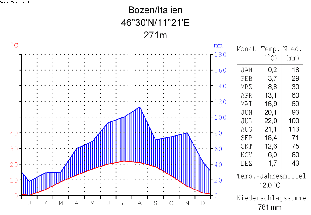 climate chart in the format by Walter and Lieth, metric, °Celsisus and millimeters, made with Geoklima 2.1